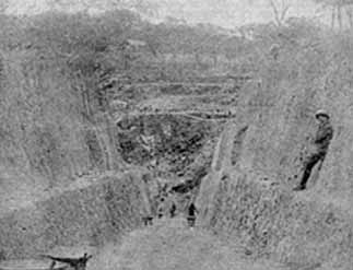 The Shinkolobwe mine was exploited by the Belgian Union Minière du Haut Katanga. The majority of the uranium used in the Manhattan Project came from that mine, thanks to the intuiton of Edgar Sengier, the CEO of the Union Minière du Haut Katanga, who had suspected that uranium would be important in war times and imported 1,000 tons of uranium ore in the United States in 1939. Contacted by the Manhattan Project people in 1942, he sold them the total stock and after refurbishment of the Shinkolobwe mine, sold them 30,000 ton between 1942 and 1944.